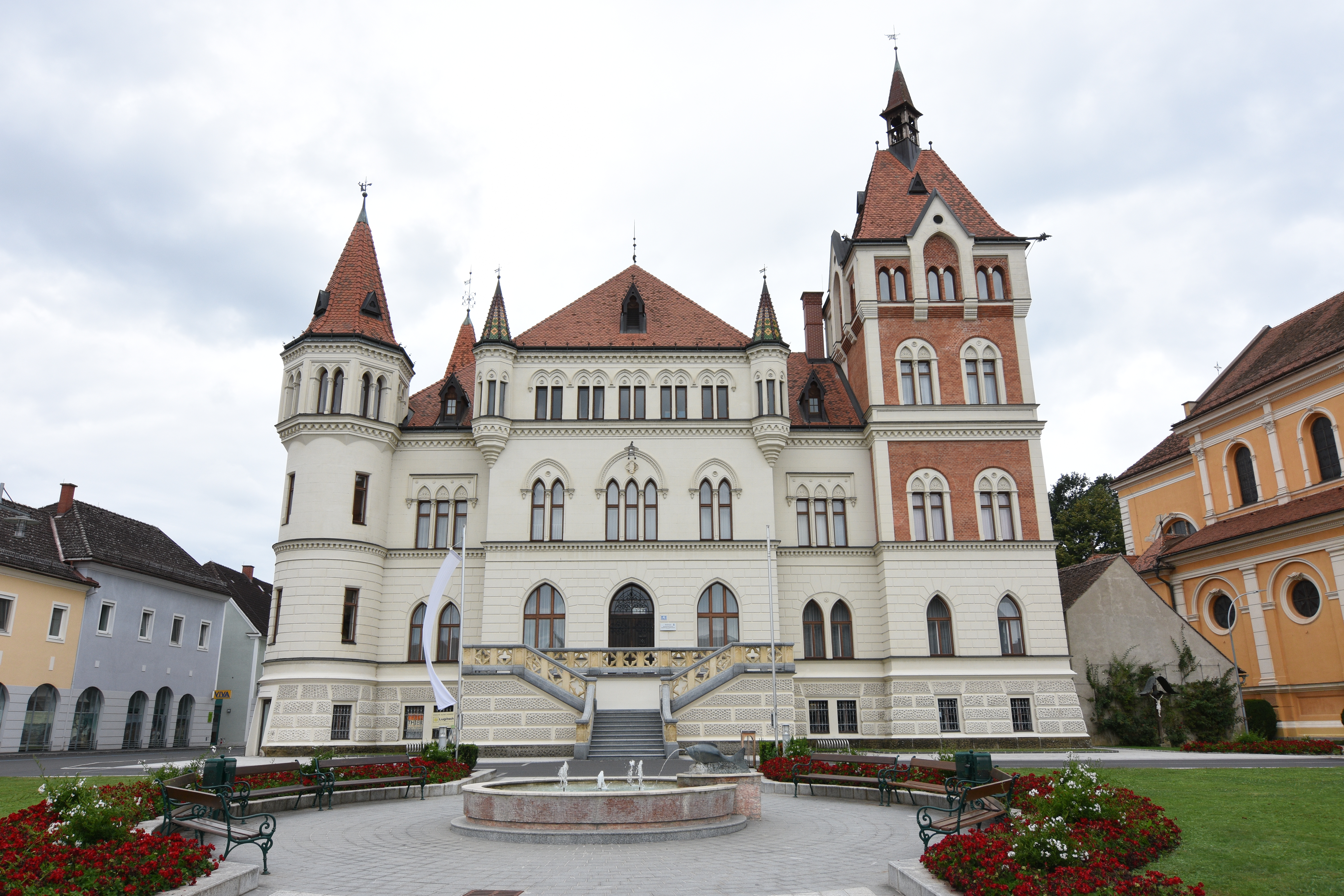 Villa Hold (Feldbach)